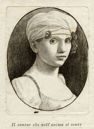 Engraved portrait of Elisabetta Manfredini Guarmanni (1780 - after 1824)